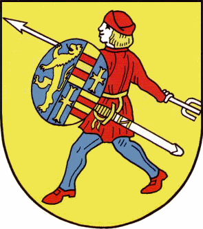 Coat of Arms of Rüstringen